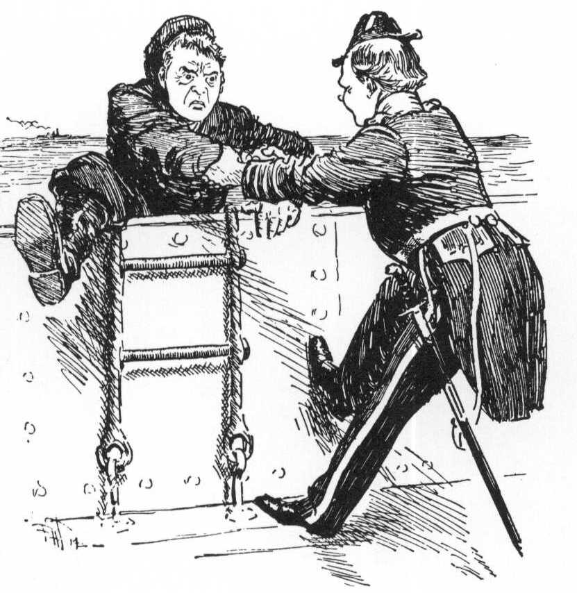 "Lord Fisher comes aboard". Caricature commenting on Winston Churchill's decision to re-appoint the retired Sir John Fisher First Sealord a few months after the beginning of WW I.